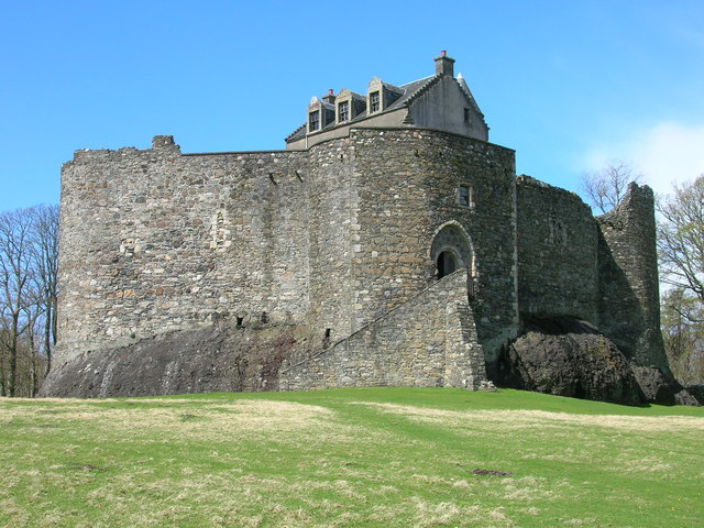 Dustaffnage Castle Dates back to the 13thC. with a curtain wall over 60 feet high.